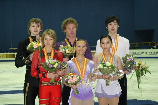 The pairs podium at the 2008-2009 Junior Grand Prix Final. From left: Ksenia Krasilnikova / Konstantin Bezmaternikh (3rd), Lubov Iliushechkina / Nodari Maisuradze (1st), Zhang Yue / Wang Lei (2nd).